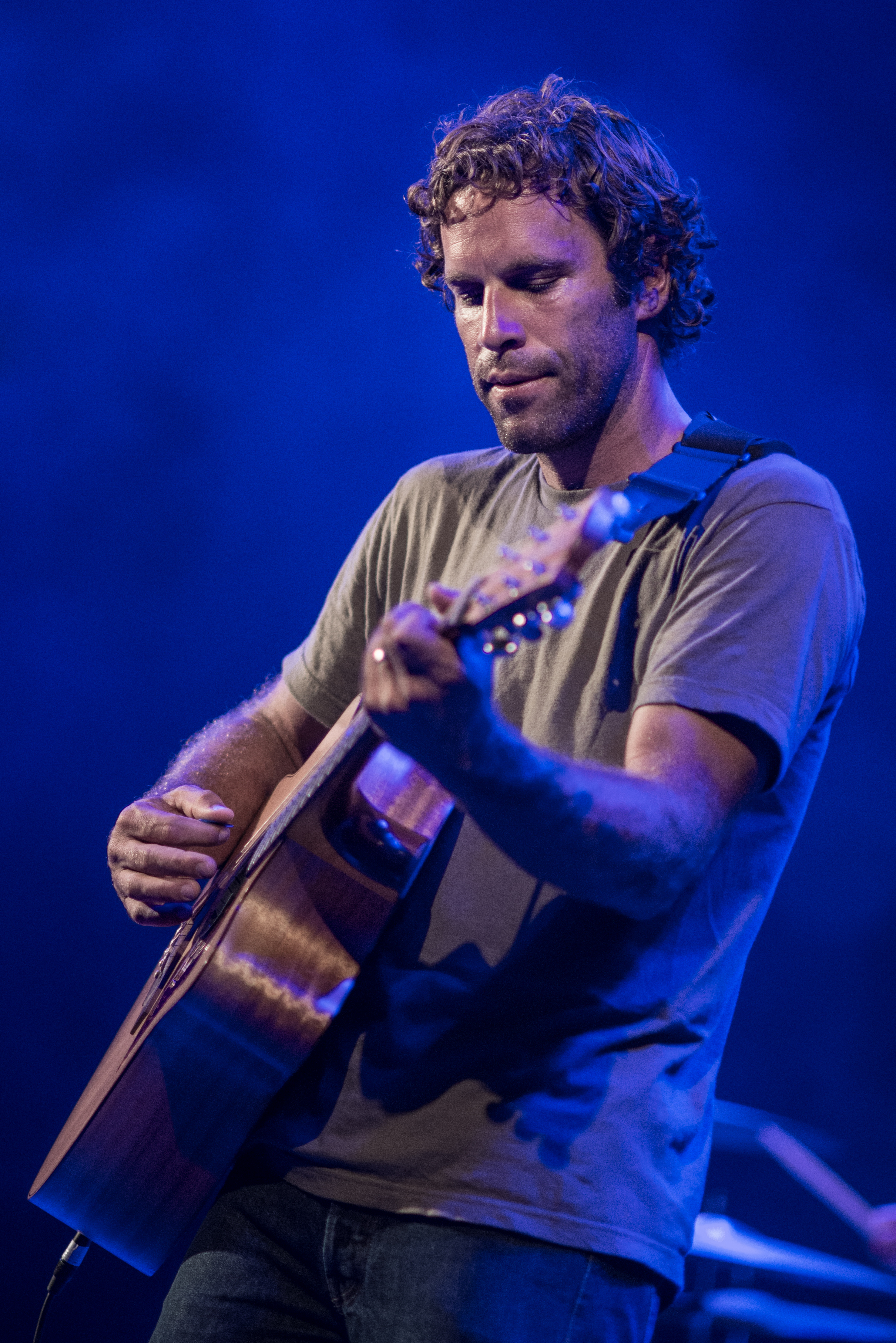 Jack Johnson performing at the Waikiki Shell in Honolulu Hawaii